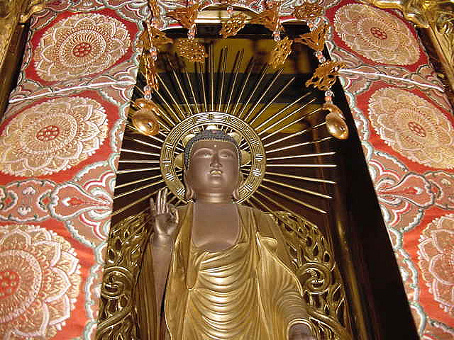 Principal deity of the Genbuzan Shonenji temple